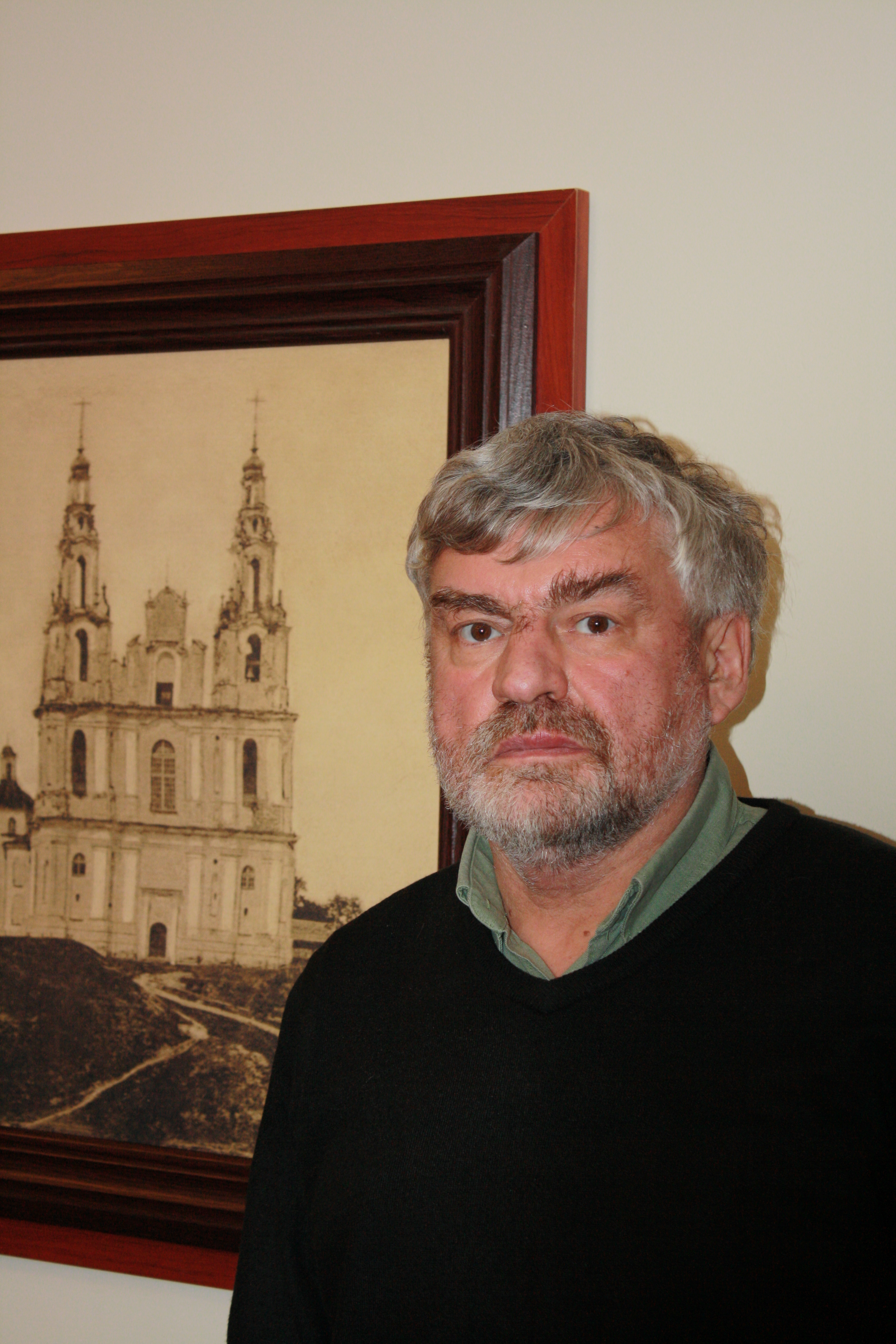 Arlou Uladzimer, Belаrusian writer, poet and historian. Беларуская (тарашкевіца): Арлоў Уладзімер, беларускі пісьменьнік, паэт і гісторык.